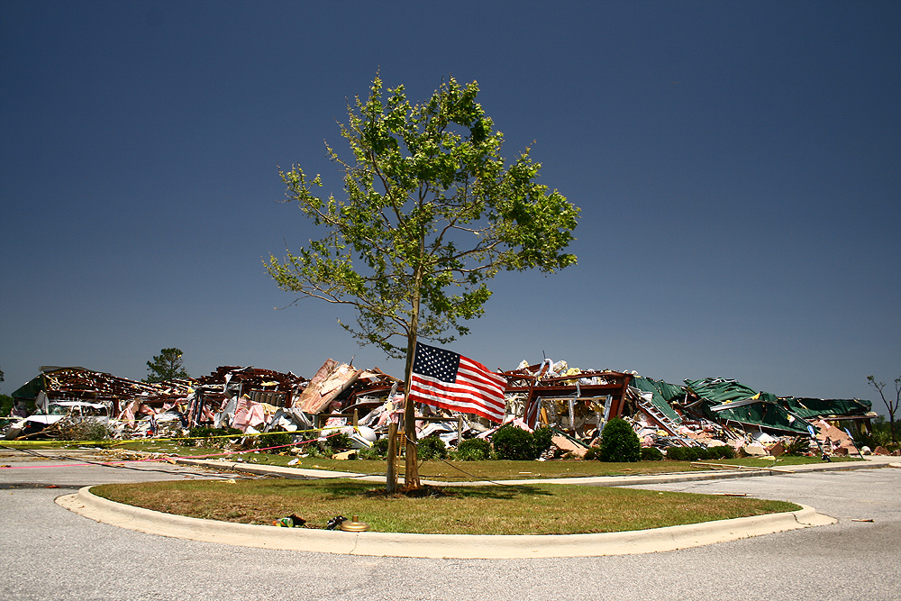 A building that was completely destroyed by an EF4 tornado that struck areas northwest of the town of Darien, Georgia (McIntosh County) on May 11, 2008. Courtesy of NWS Charleston, SC